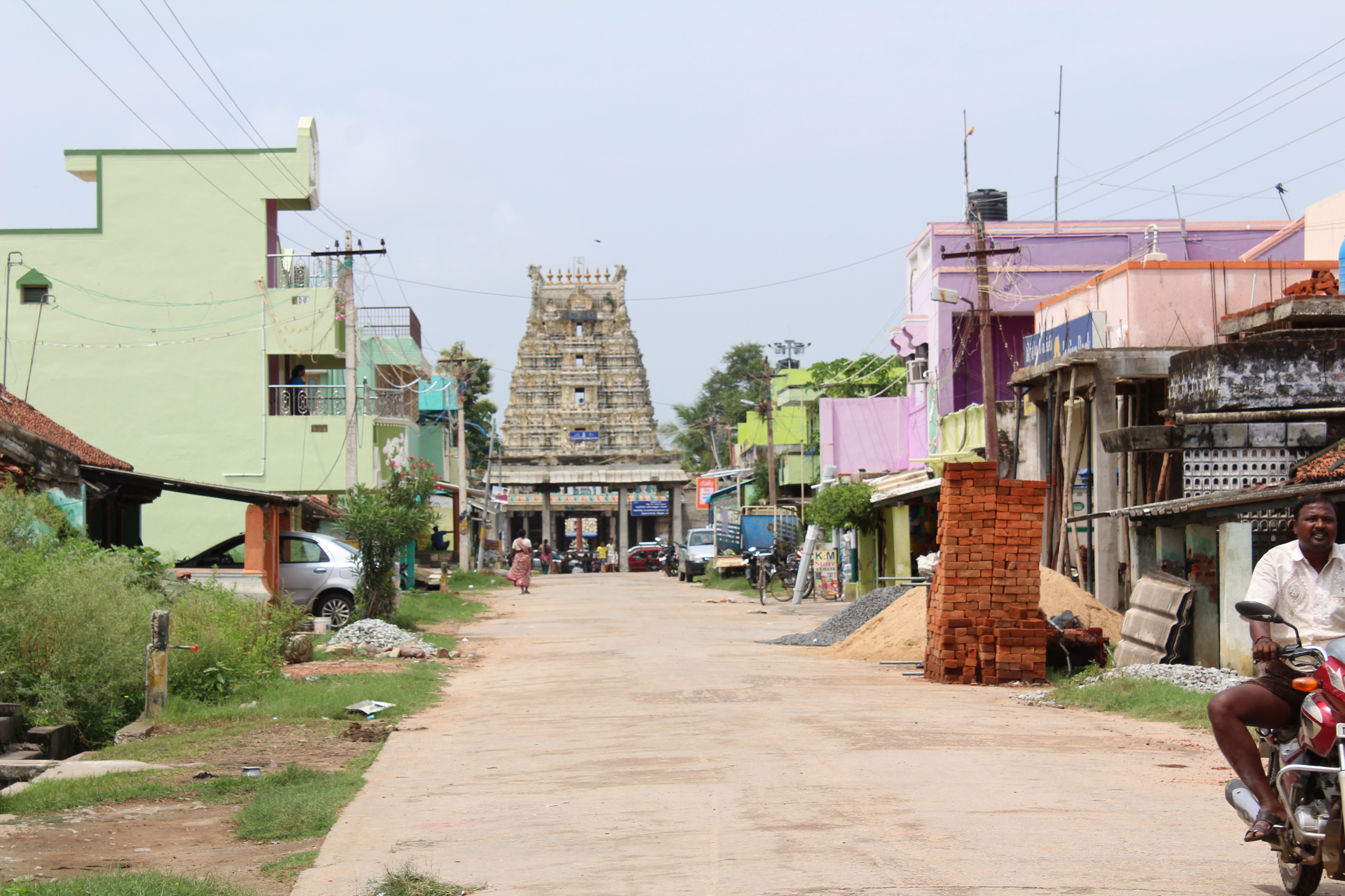 Thiruvalangadu temple